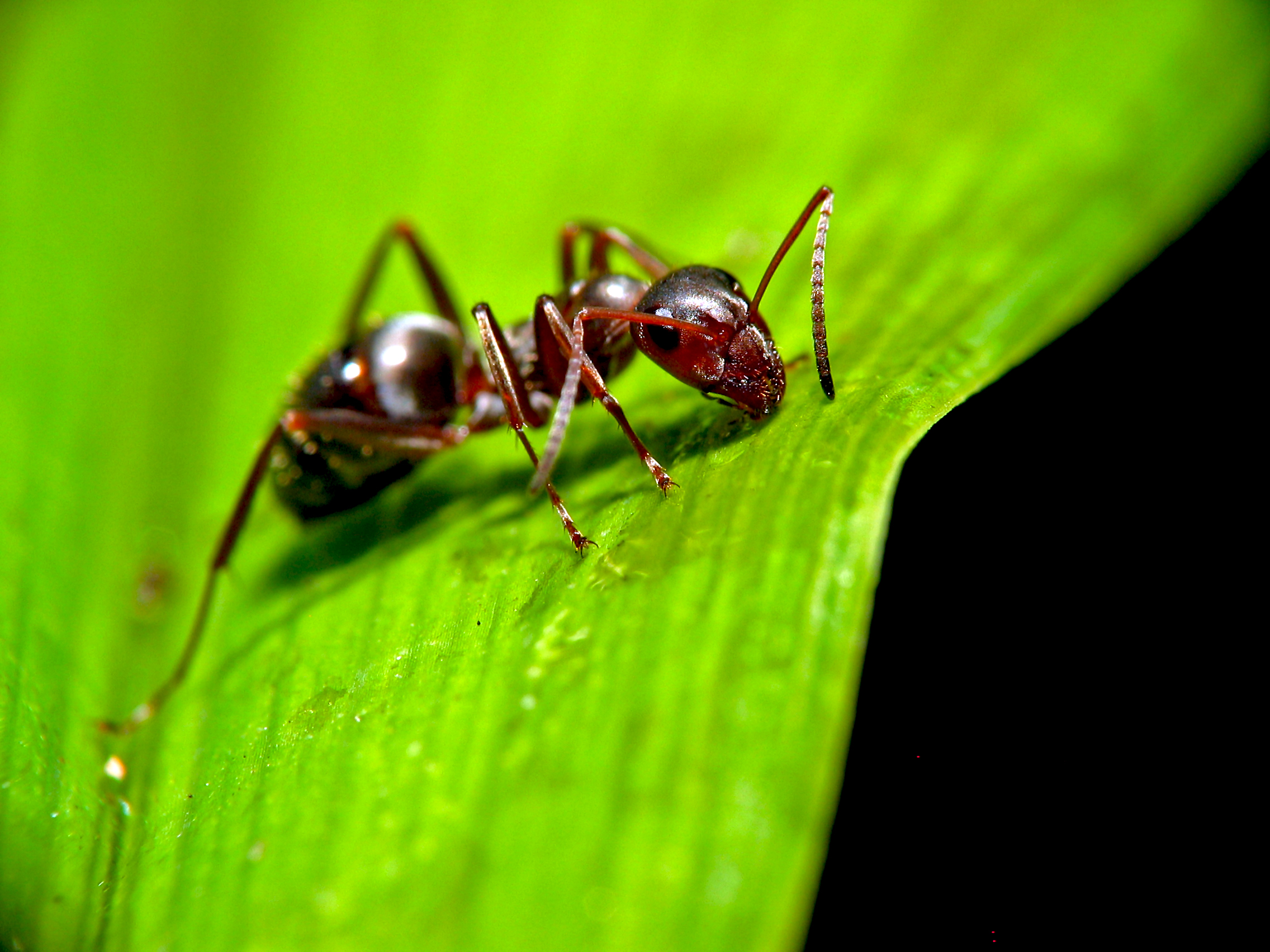 Ant walking on leaf